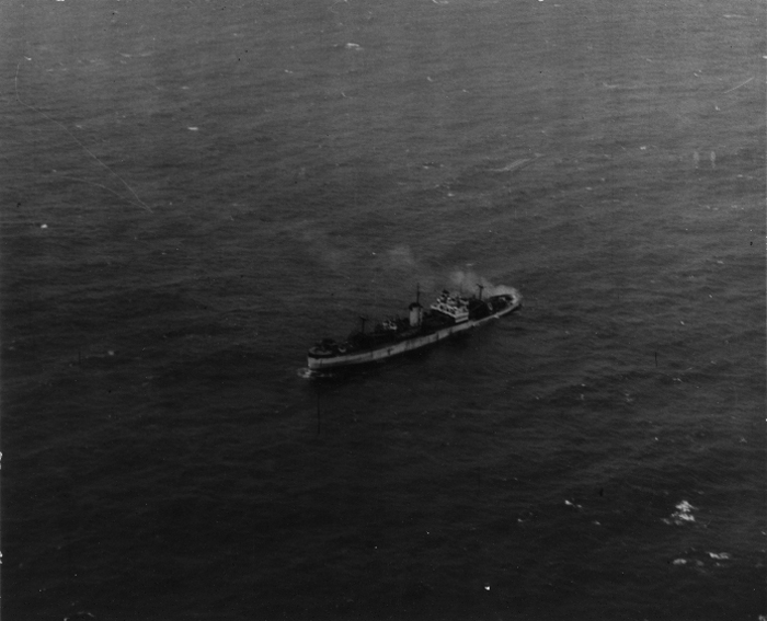 S.S. Twickenham down by the bows after being struck by a torpedo starboard side forward from U-135 - the British 4,762 GRT freighter proceeded to Dakar under her own power screened by H.M.S. Fandango - there were no casualties